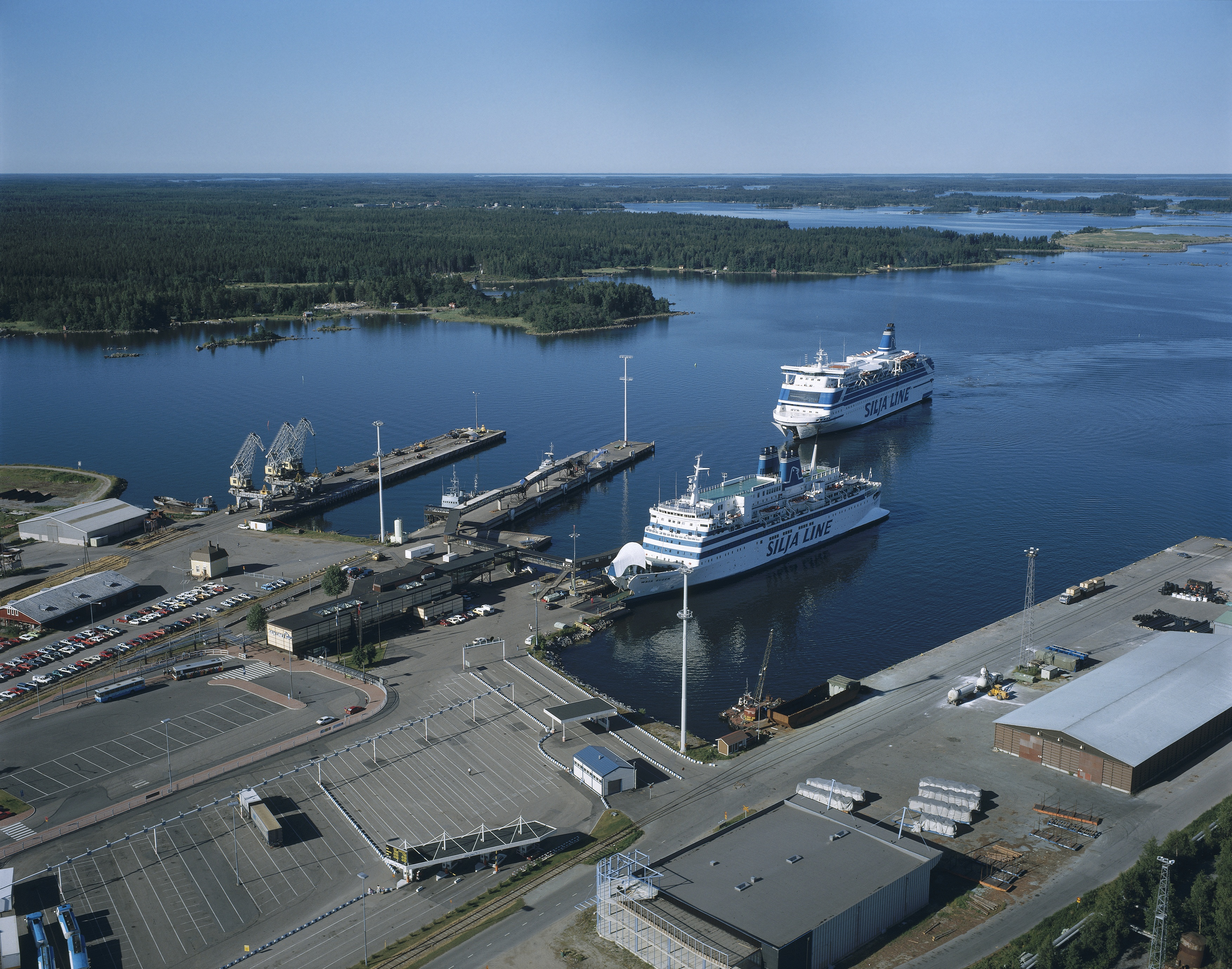 Vasklot harbour in Vaasa circa 1994 with m/s Silja Festival arriving and m/s Wasa Queen at dock.